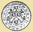 Zegel Mattheus de Vey anno 1735